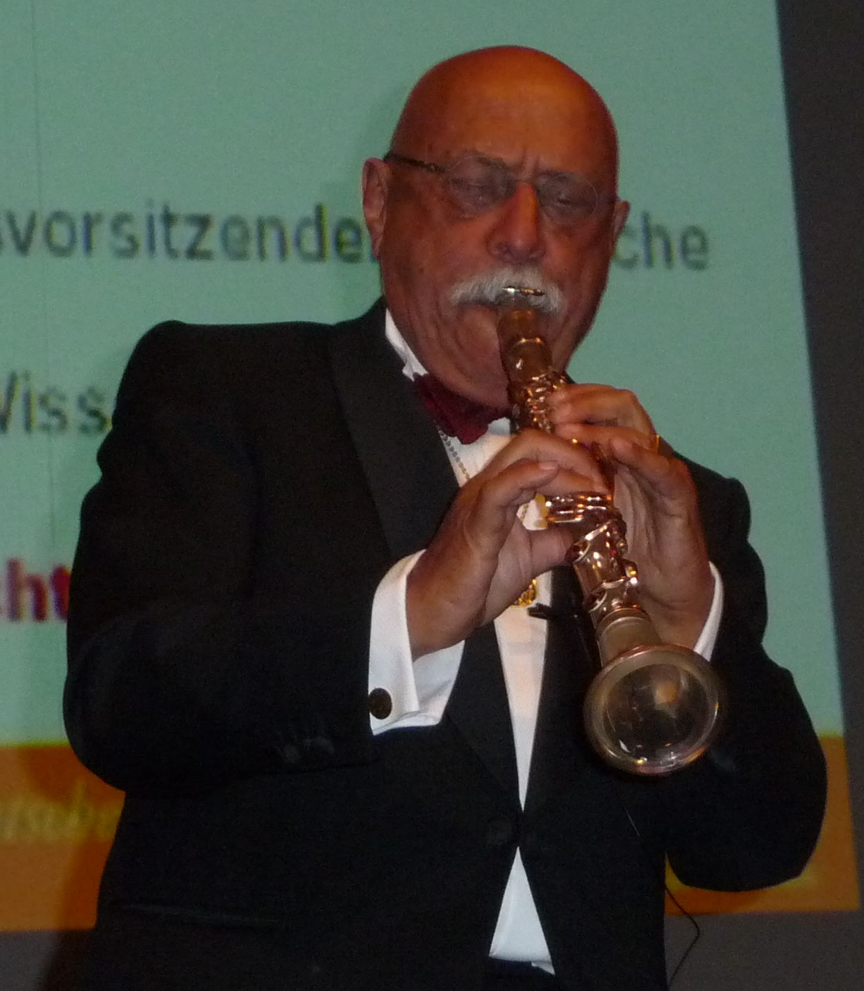 Giora Feidman